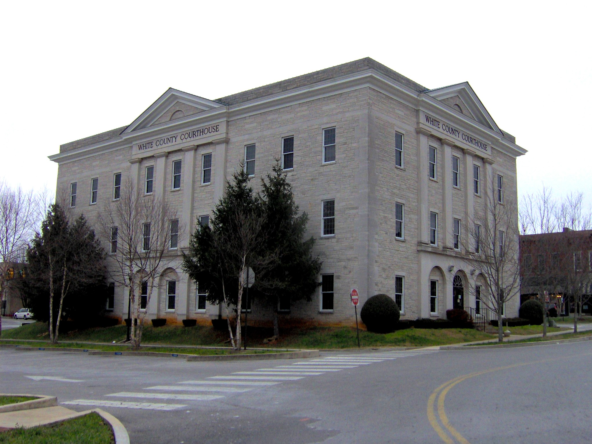 White County Courthouse in Sparta, Tennessee, located in the Southeastern United States.